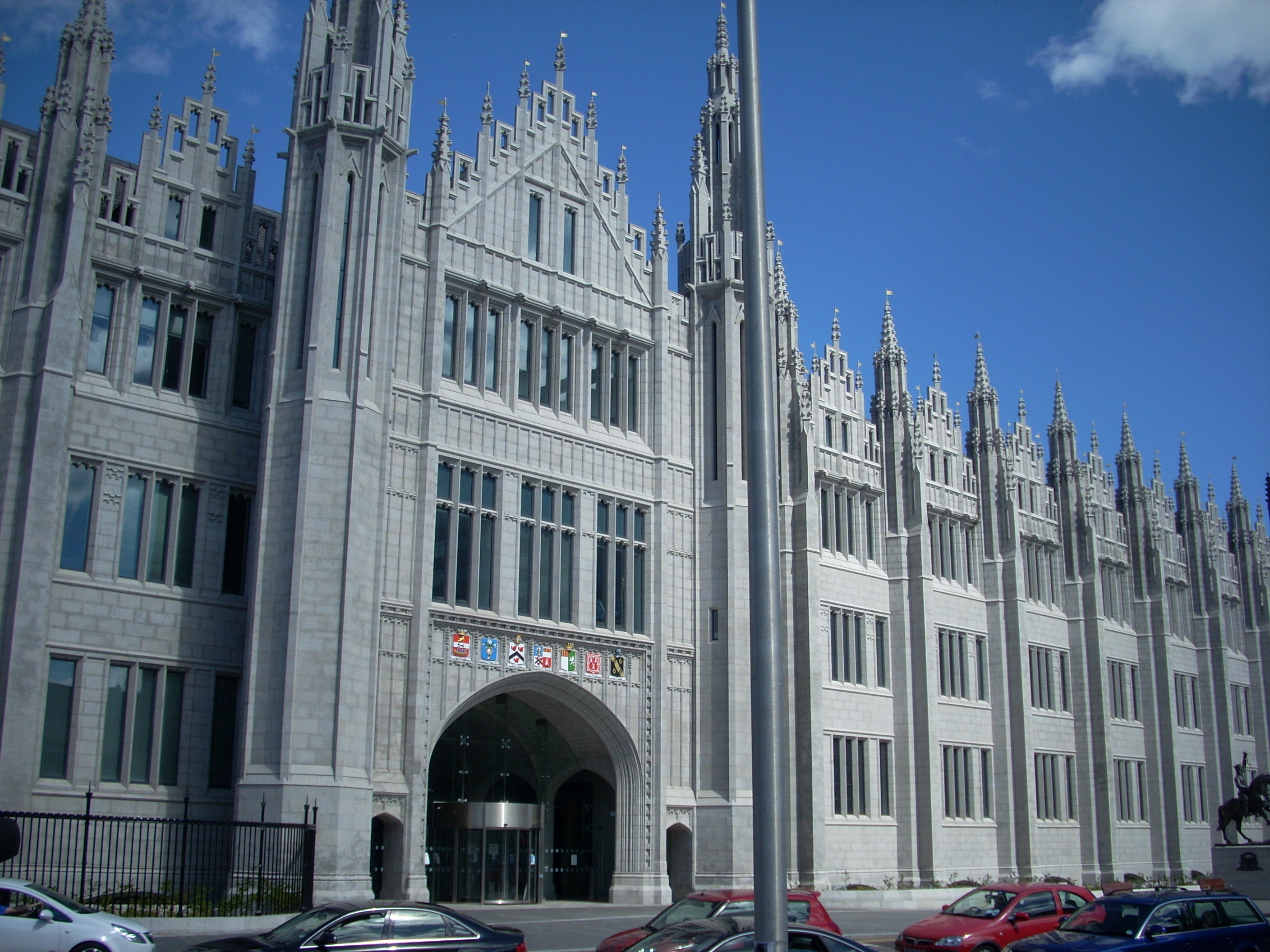 Marischal College from Broad Street May 2012